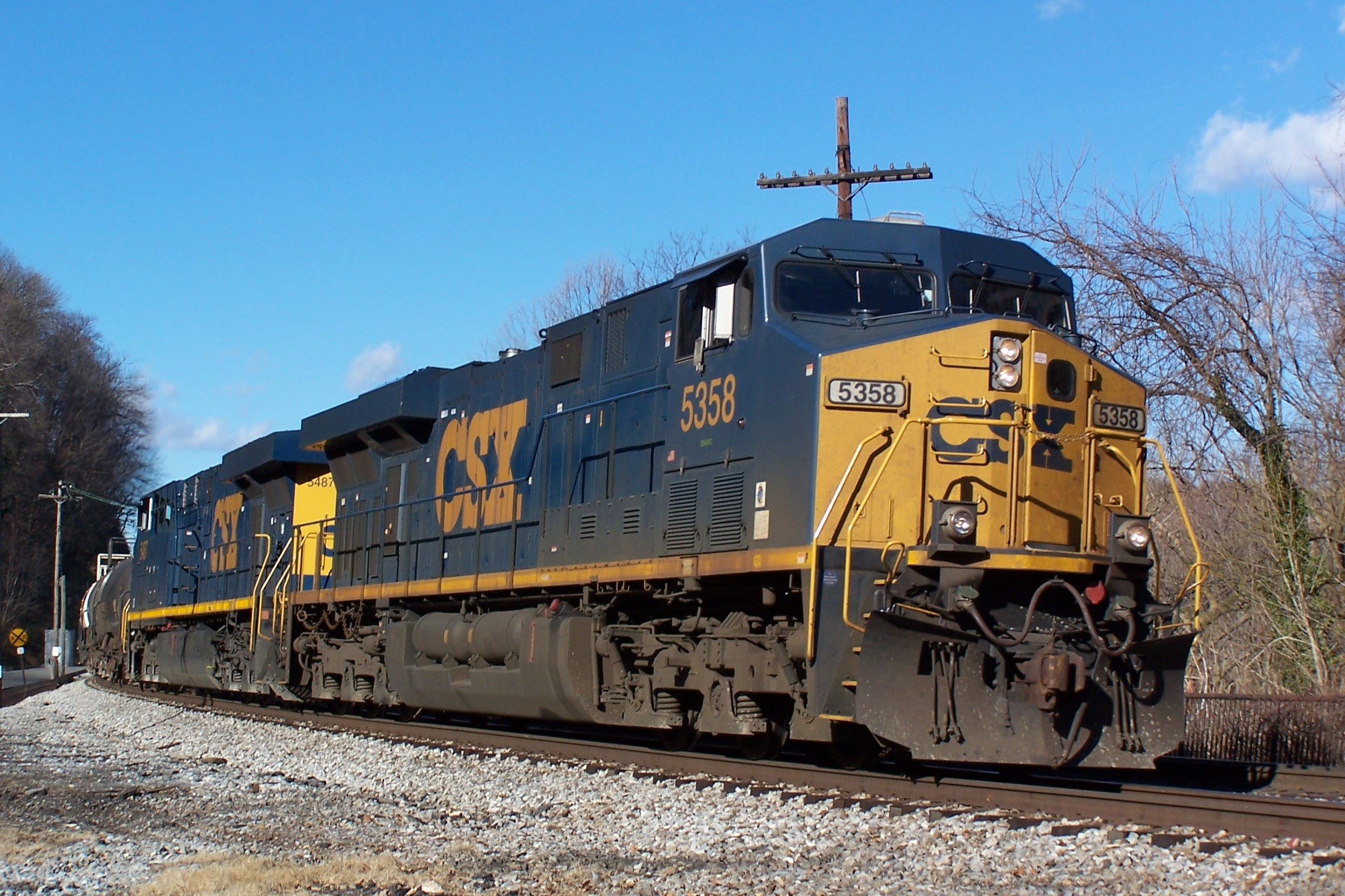 CSX Engine # 5358 and sister # 5487, both ES44DC's lead a train into Harper's Ferry, WV on a sunny and mild January morning.